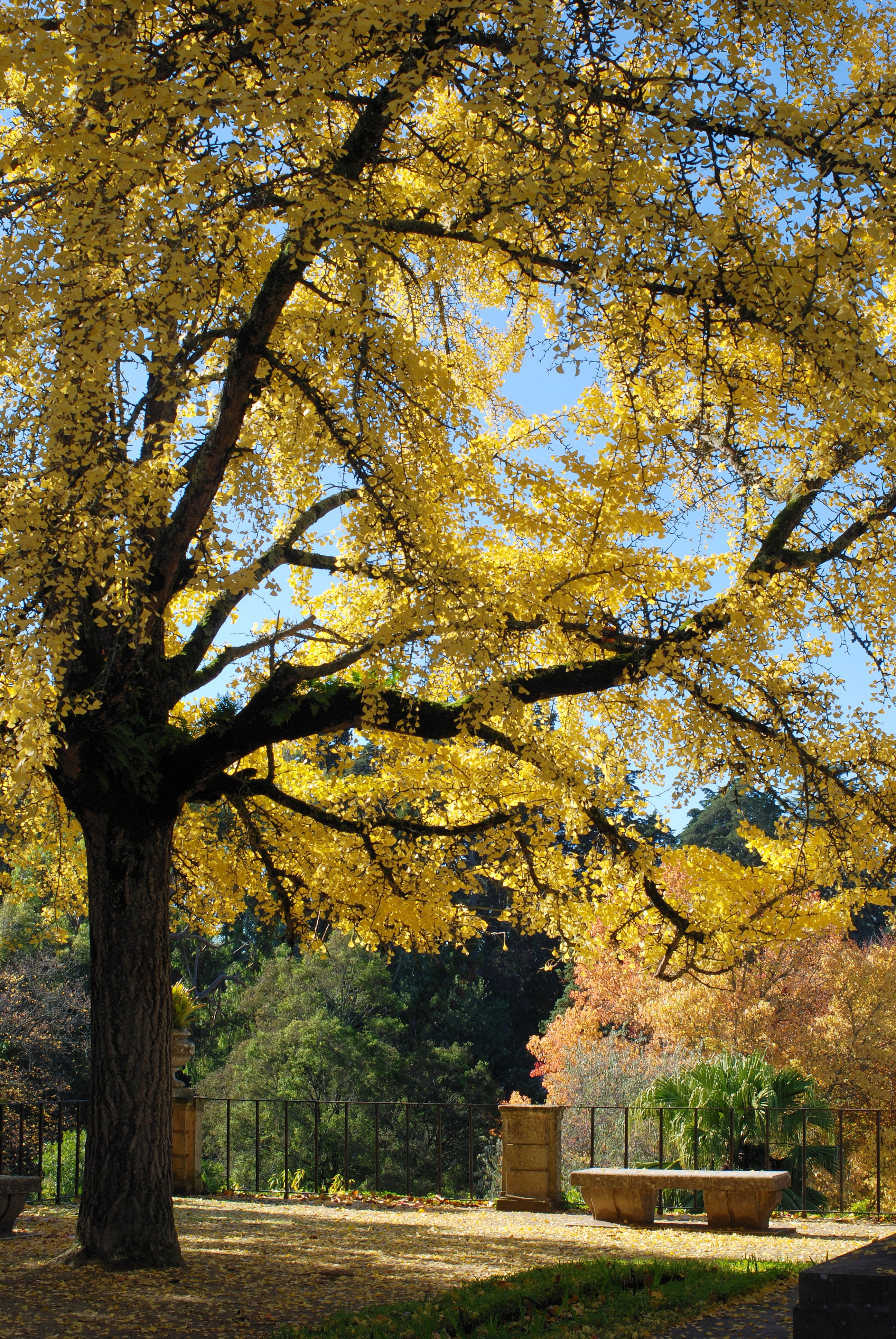 View of the Botanical Garden of Coimbra, Portugal. The tree in the foreground is a Ginkgo biloba